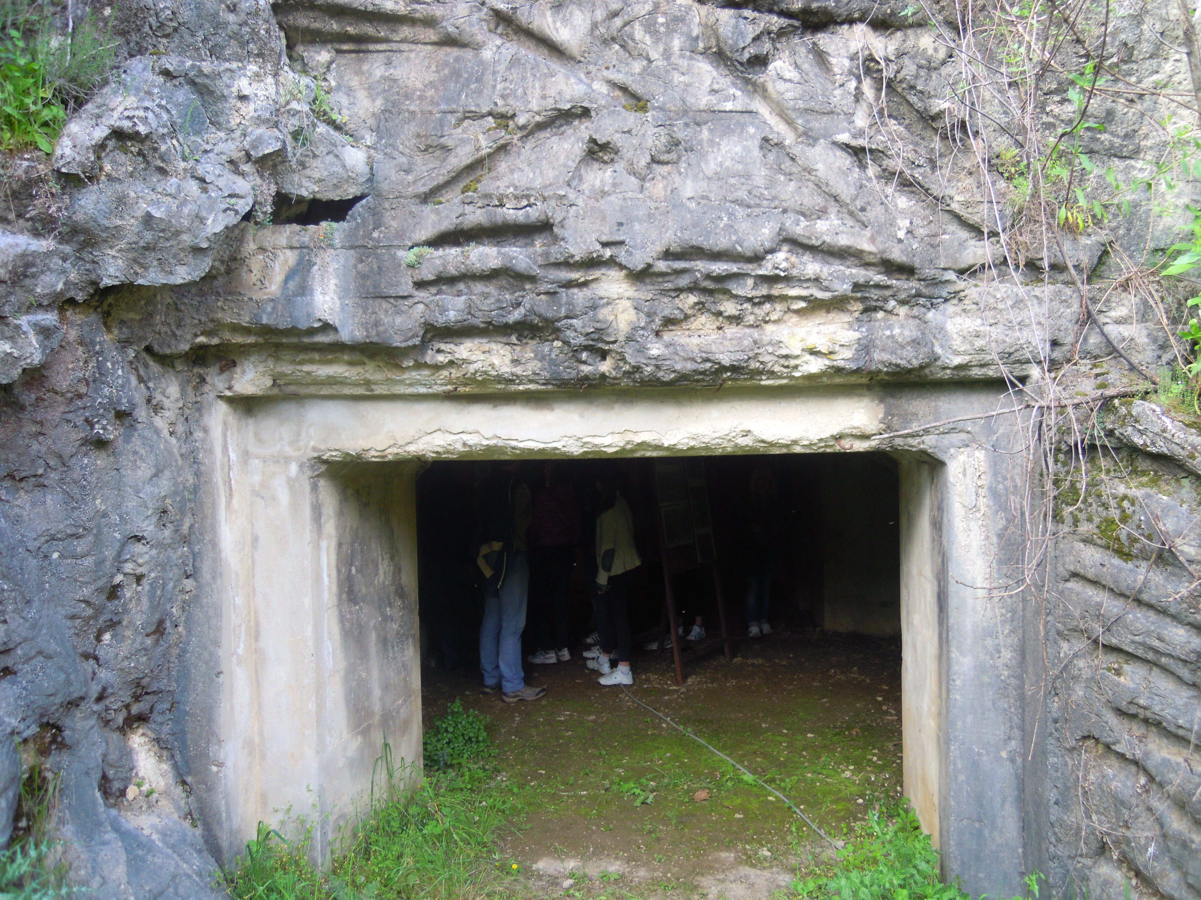 galleria armata